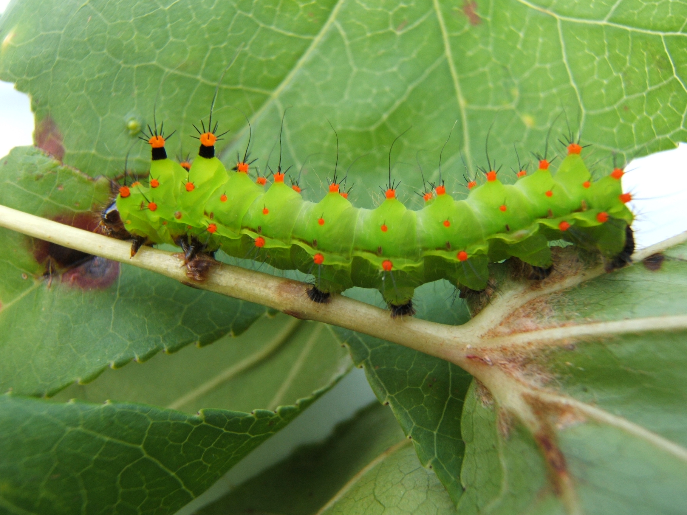 Actias selene 3rd instar reared on American Sweetgum. Taken and raised by Shawn Hanrahan.